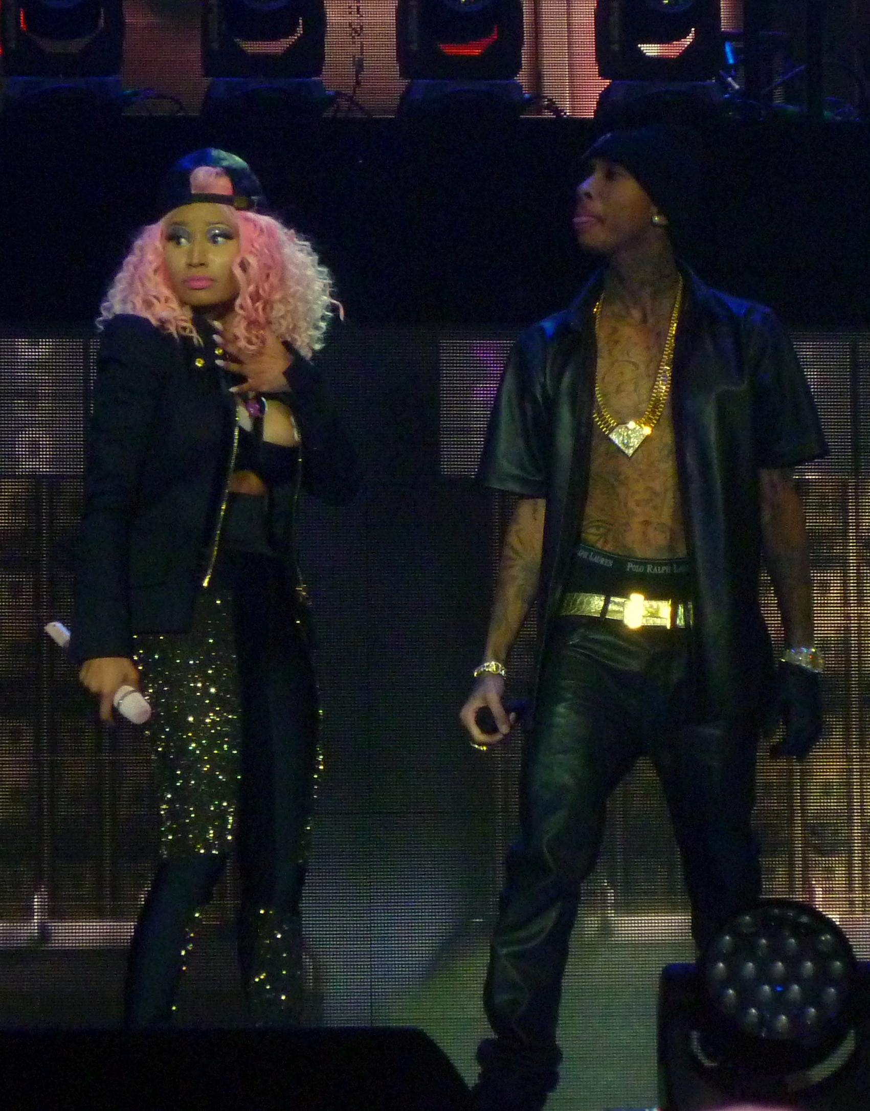 Photo of Nicki Minaj joined by Tyga on stage at The O2 Arena, London, on her Pink Friday: Reloaded Tour. 30th October 2012.